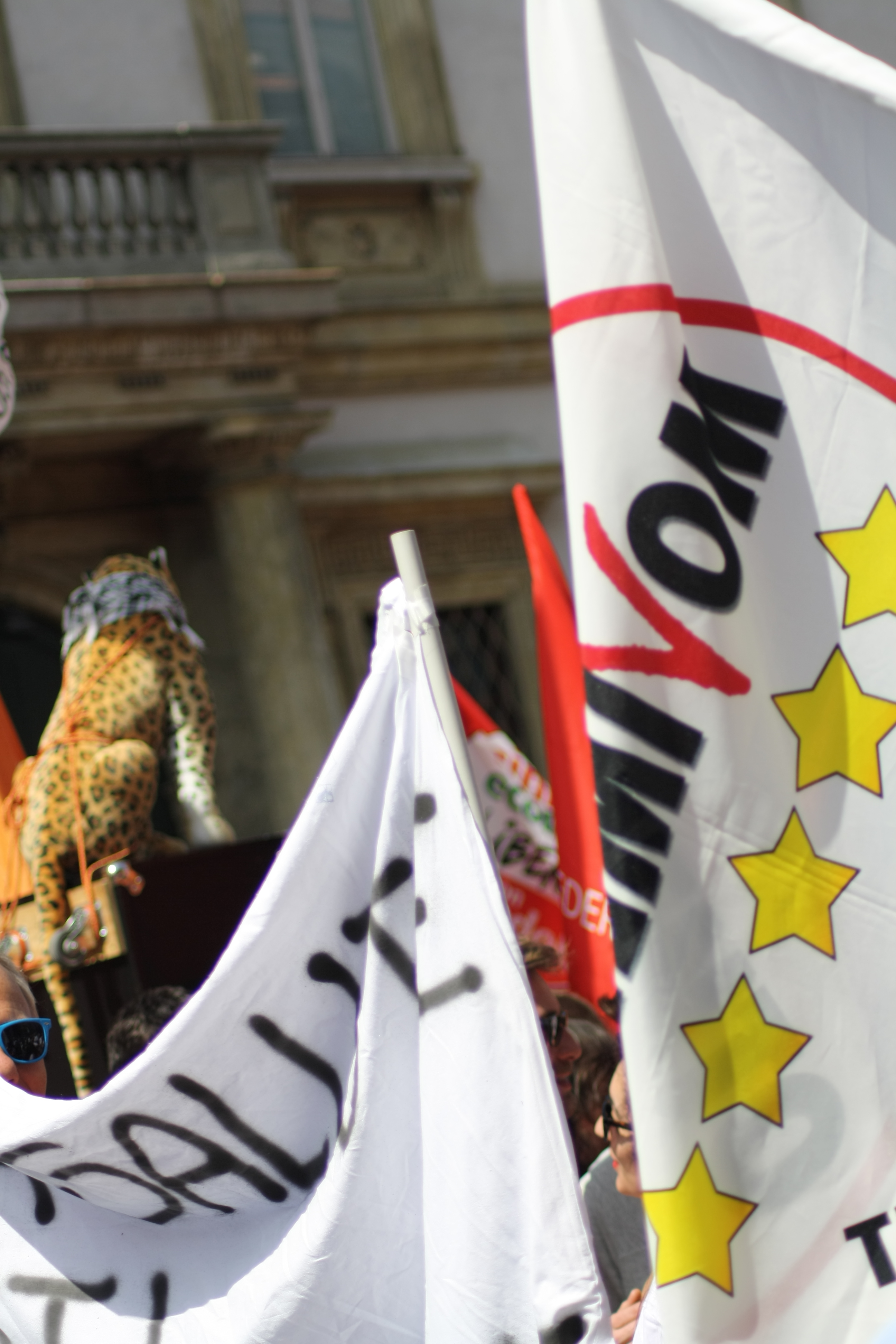 Liberation Day 2013 in Milan, april 25, 2013.